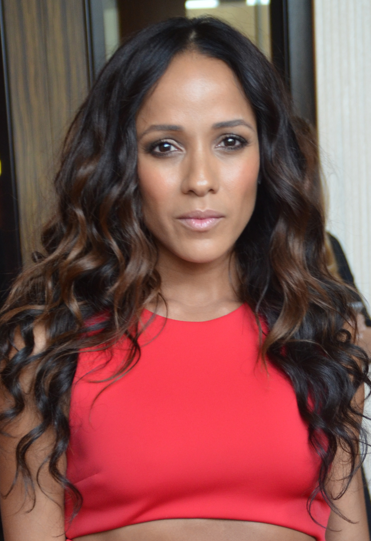 Actress Dania Ramirez at the 29th Annual Imagen Awards Gala at the Beverly Hilton in Beverly Hills on August 1, 2014